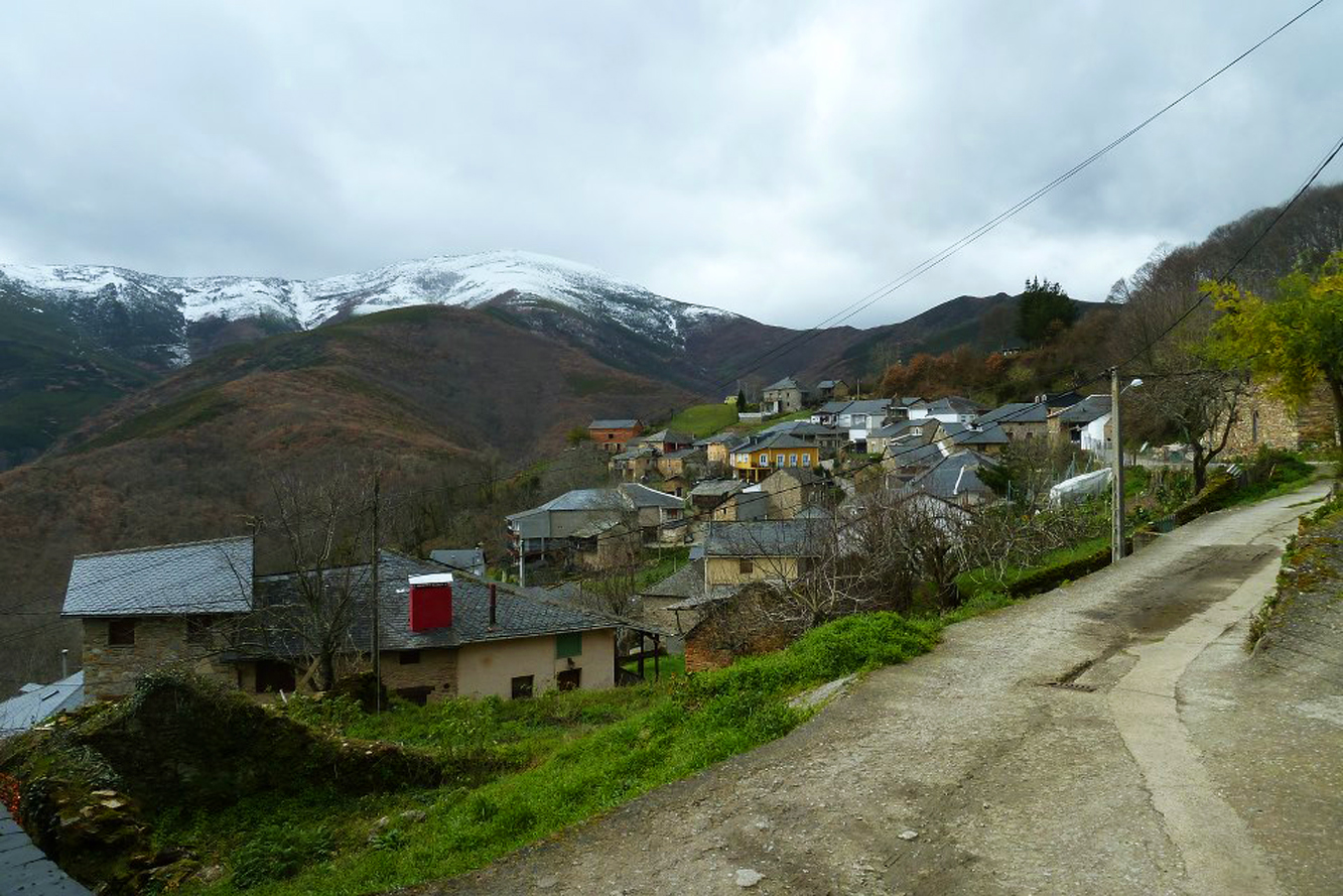 view of the town